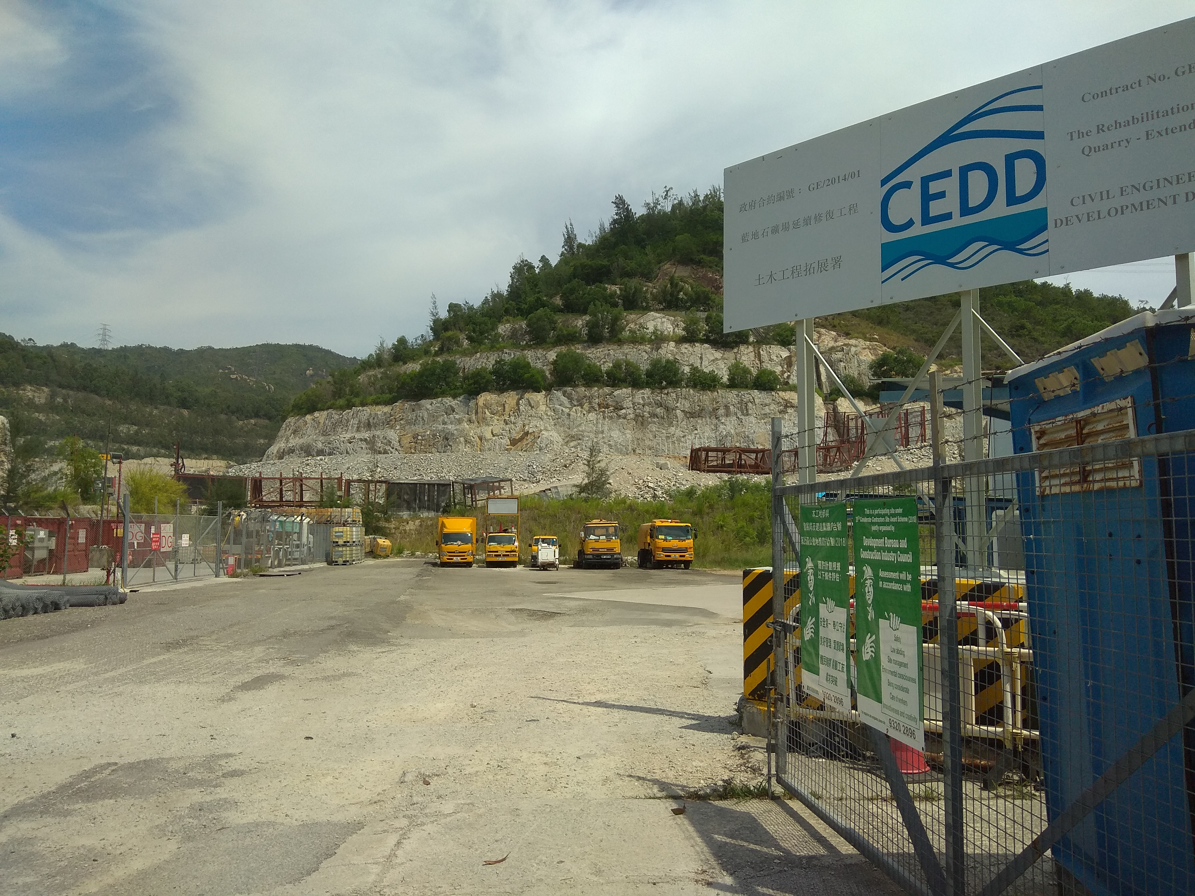 Lam Tei Quarry